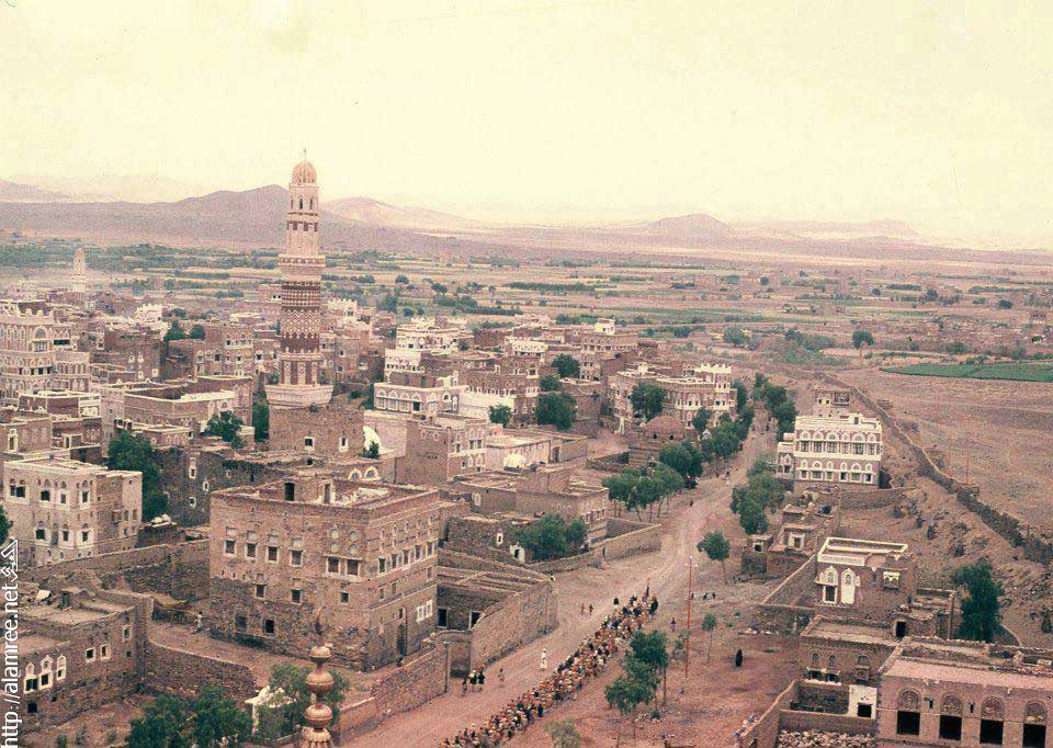 Old Sana'a in 1962